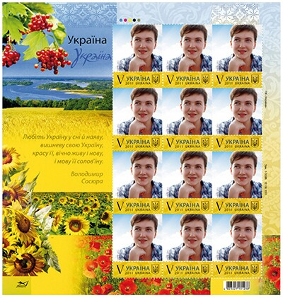 In support of the Hero of Ukraine Nadiya Savchenko Ukrpochta released a brand which will give her a present, along with a letter from the team.